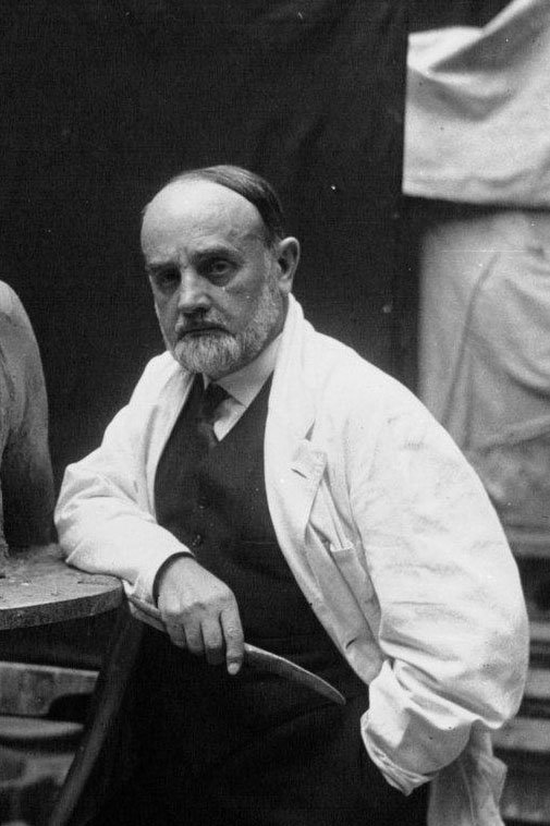 French sculptor François Cogné (1876-1952).